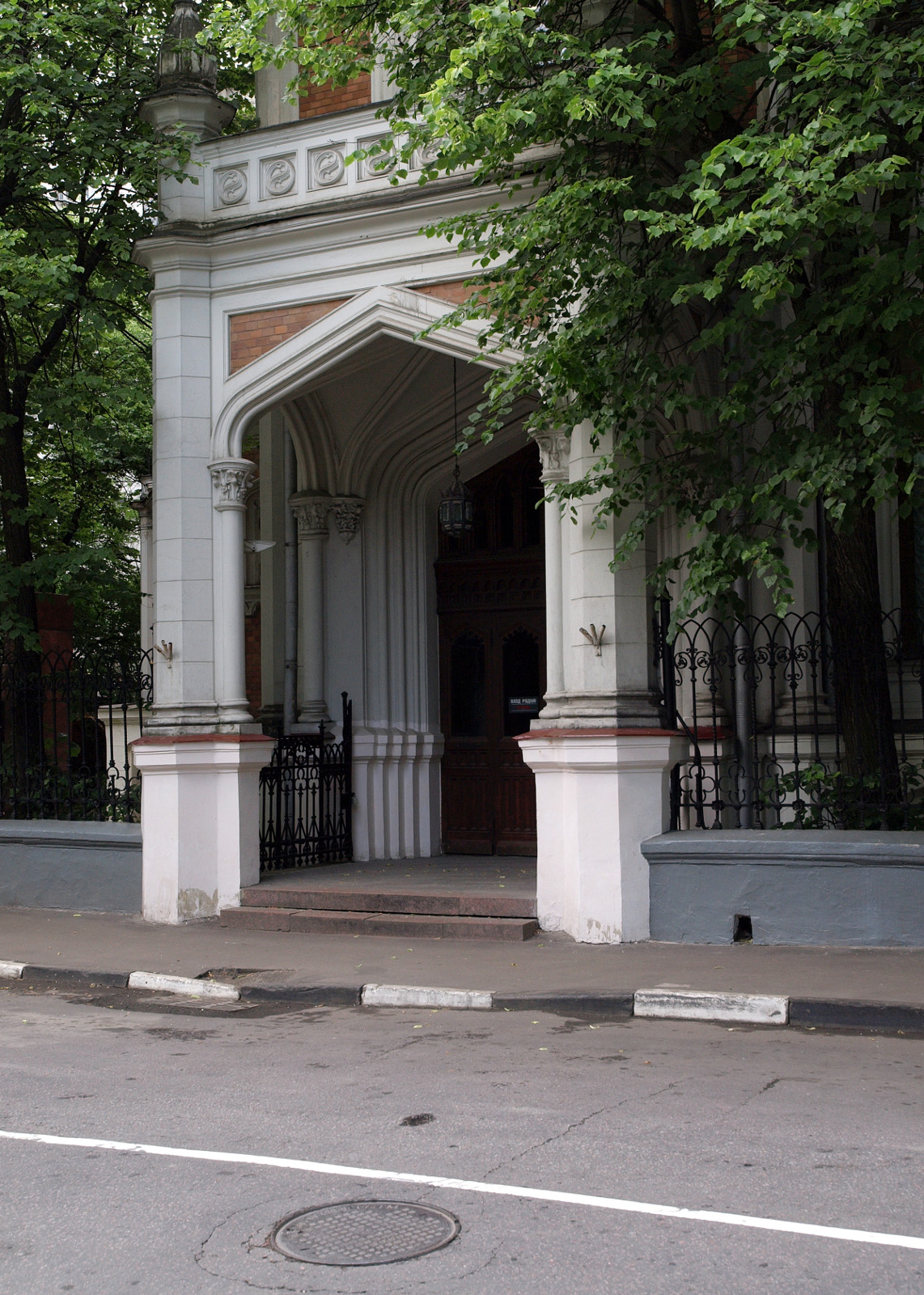 Granatny Lane, Moscow.